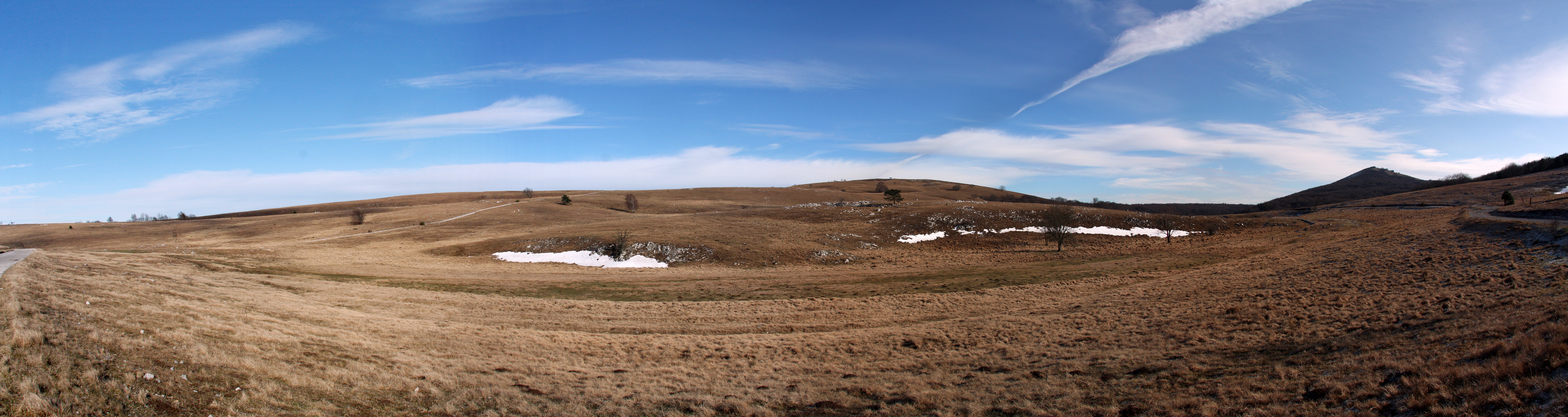 Mt. Vremščica, Slovenia. On the far right, Big Vremščica (peak; 1027 m) is visible.